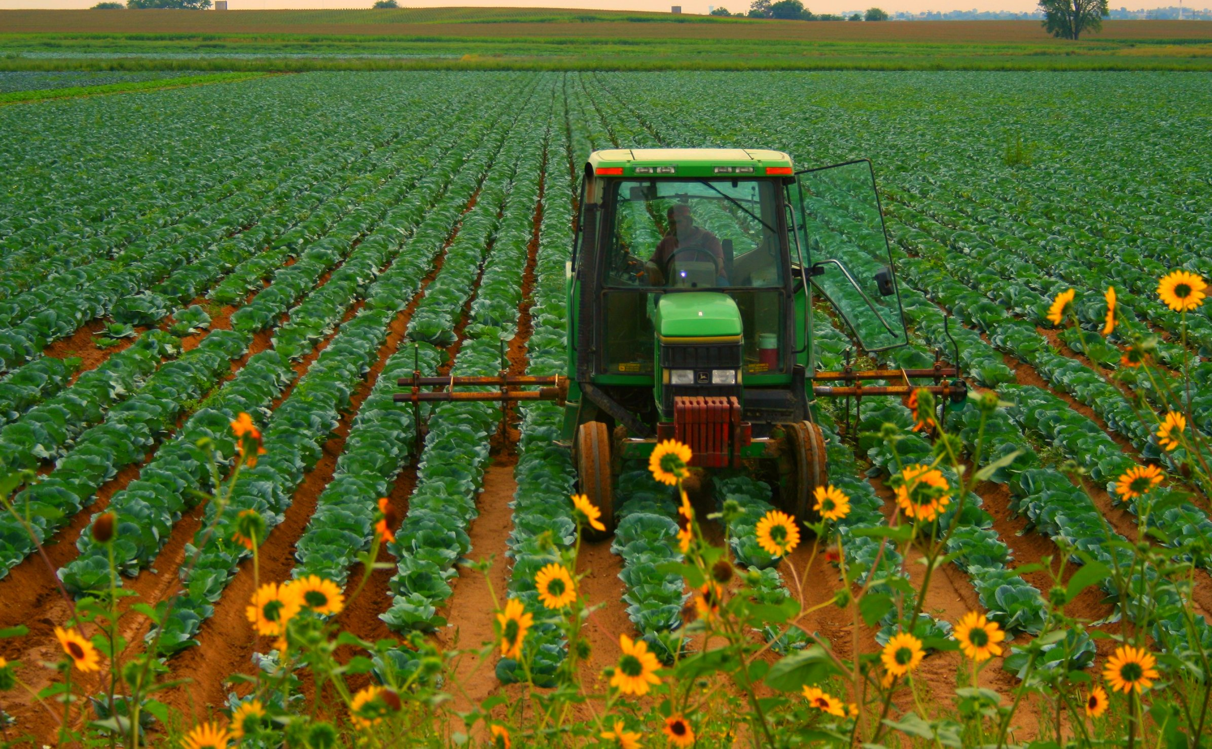 A John Deere tractor working with a special form of tine weeder (looks like self-made) between the rows in a cabbage field (Brassica oleracea var. capitata f. alba likely) in Colorado. – A color enhanced farm on highway 287 between Lafayette and Longmont, Colorado, just north of Lookout Road.